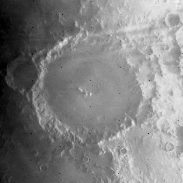 Arkhangelsky crater on Mars. Viking Orbiter 1 image from camera A (084A01). Clear filter was used for this image. Much of the original image was overexposed and with high noise, so brightness and contrast were adjusted and it was despeckled, then cropped. Resolution is about 230 m/pixel. North is to upper right. Emission Angle: 12.7 Incidence Angle: 87.6 Latitude: -40.4 Longitude: 335.5 Phase Angle: 76.4